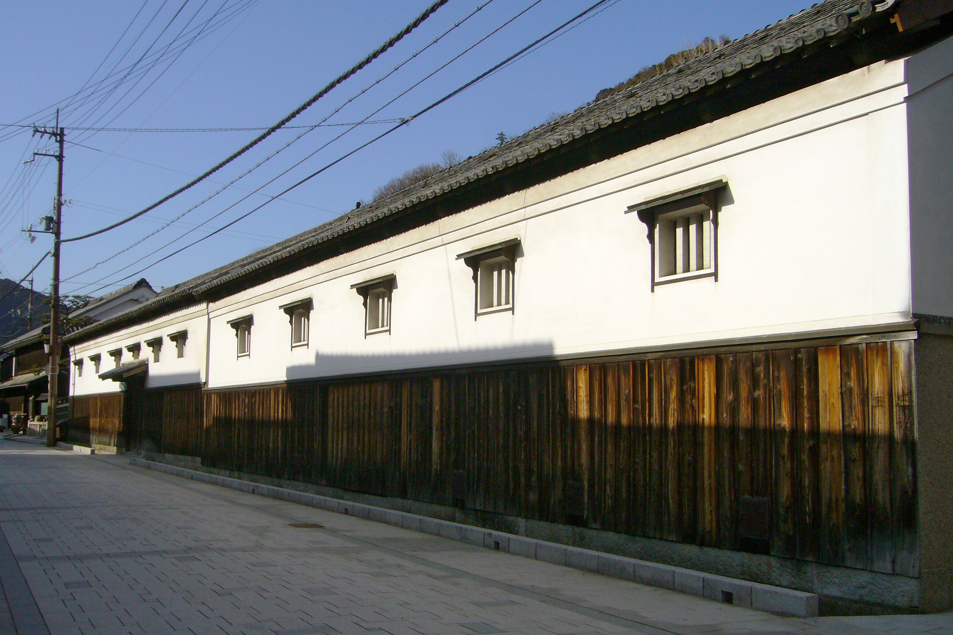 Okudo Sake Museum in Sakoshi, Ako, Hyogo prefecture, Japan